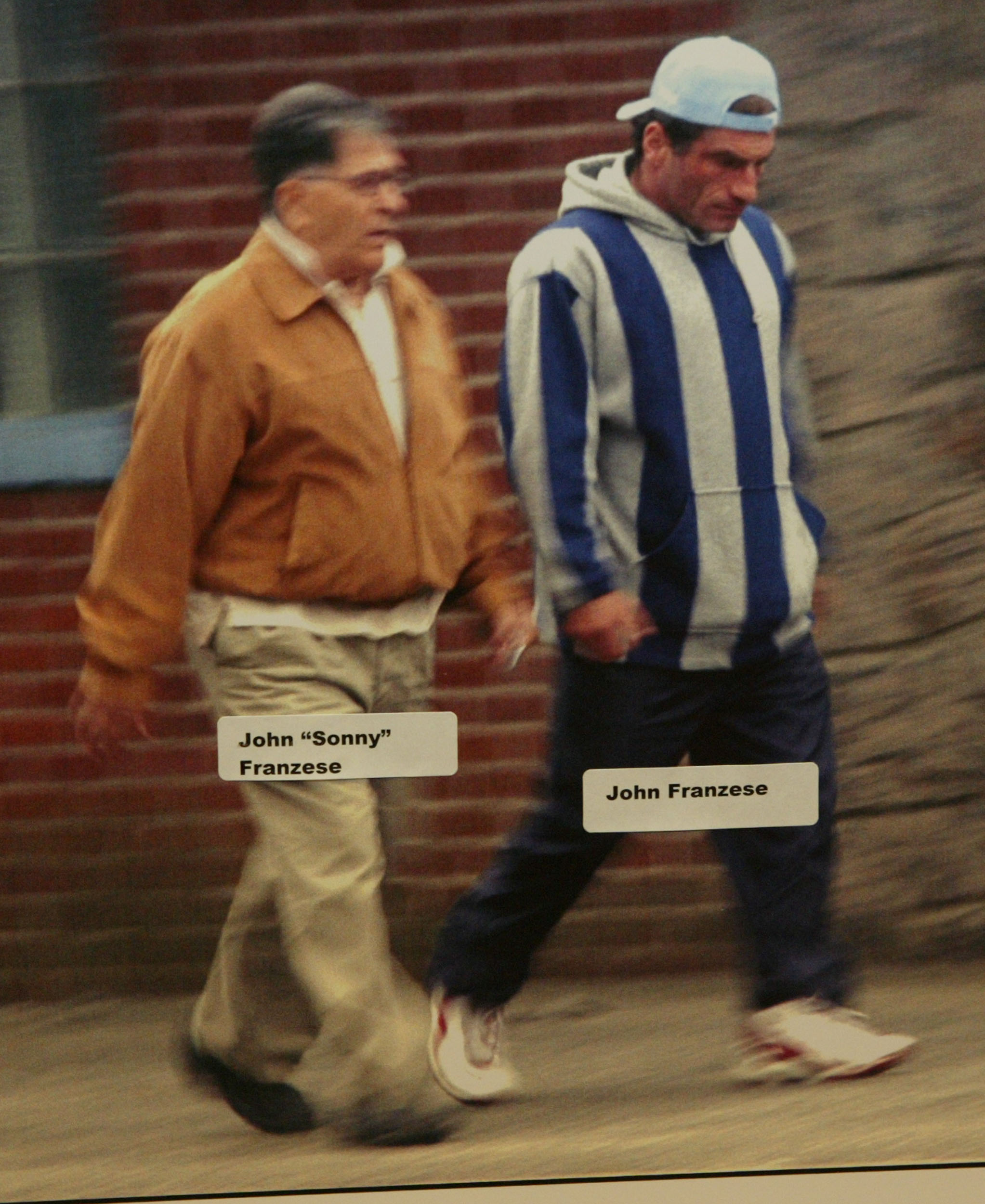 FBI surveillance photo of John "Sonny" Franseze and John Franseze, Jr. in 2005.